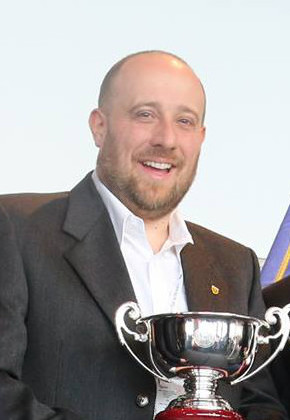 Guido Guerrini at the price giving ceremony of Rallye Monte Carlo des Énergies Nouvelles 2015